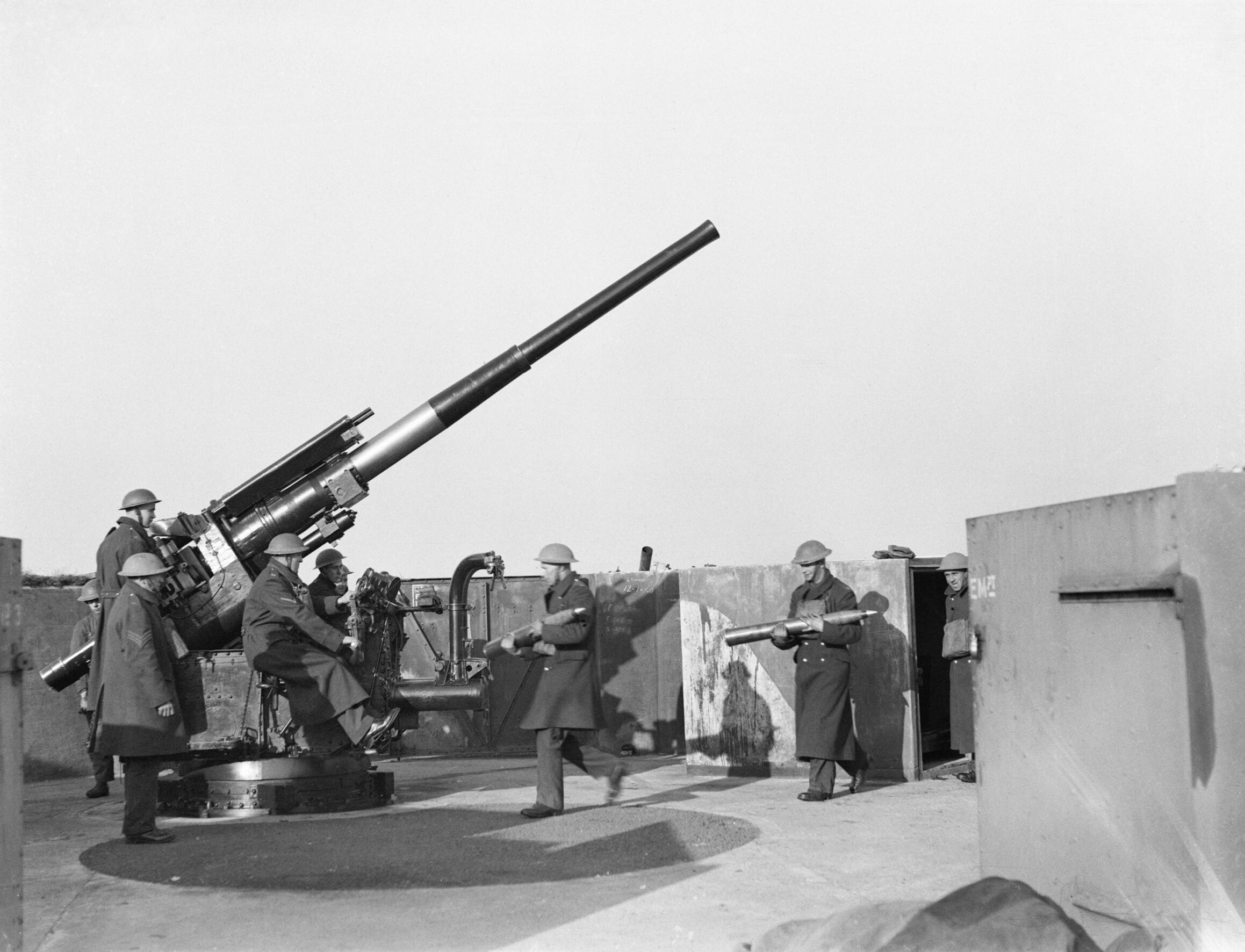 The British Army in the United Kingdom 1939-45 4.5-inch anti-aircraft gun emplacement at Chatham, Kent, 1939.